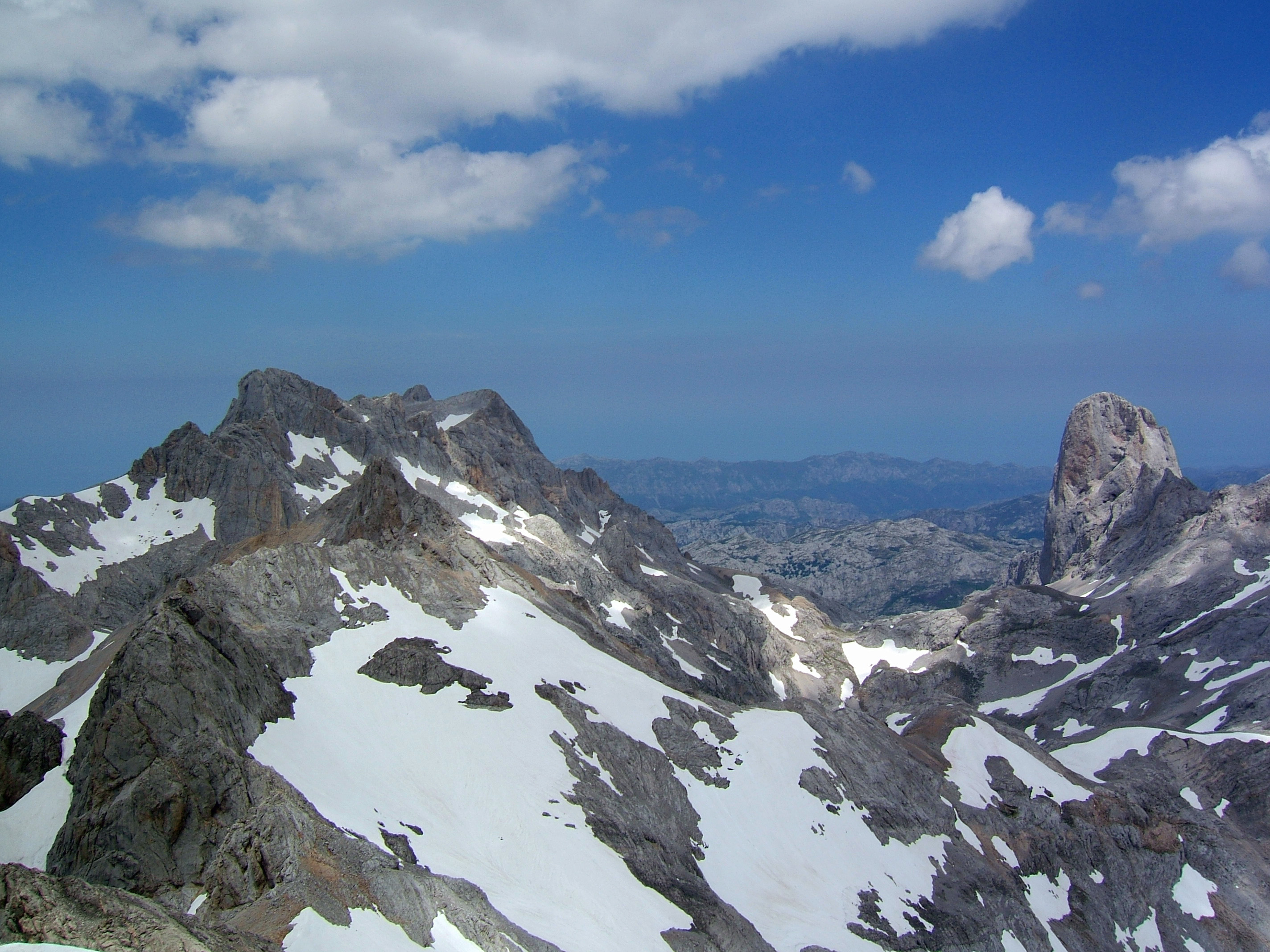 View from Pico Tesorero in direction north, on the left Torre de Cerredo, right Naranjo de Bulnes, in the background Sierra de Cuera and Costa Verde